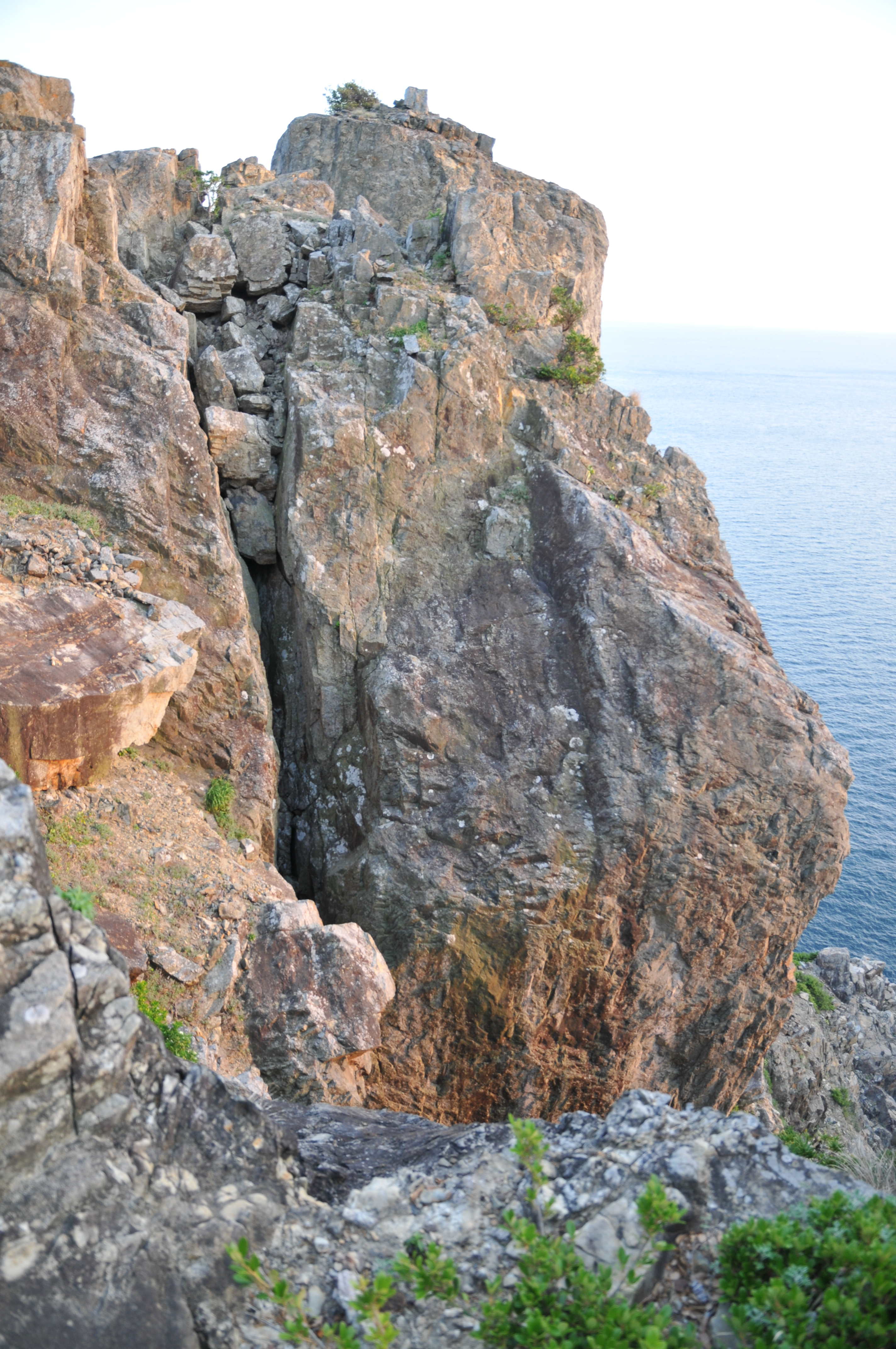 Oman-no-taki cliff